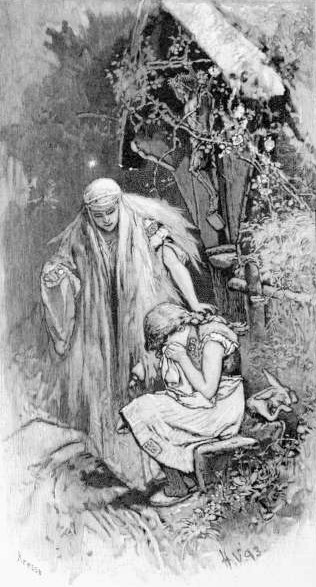 illustration of the Brothers Grimm fairy tale "One-Eye, Two-Eyes, and Three-Eyes"